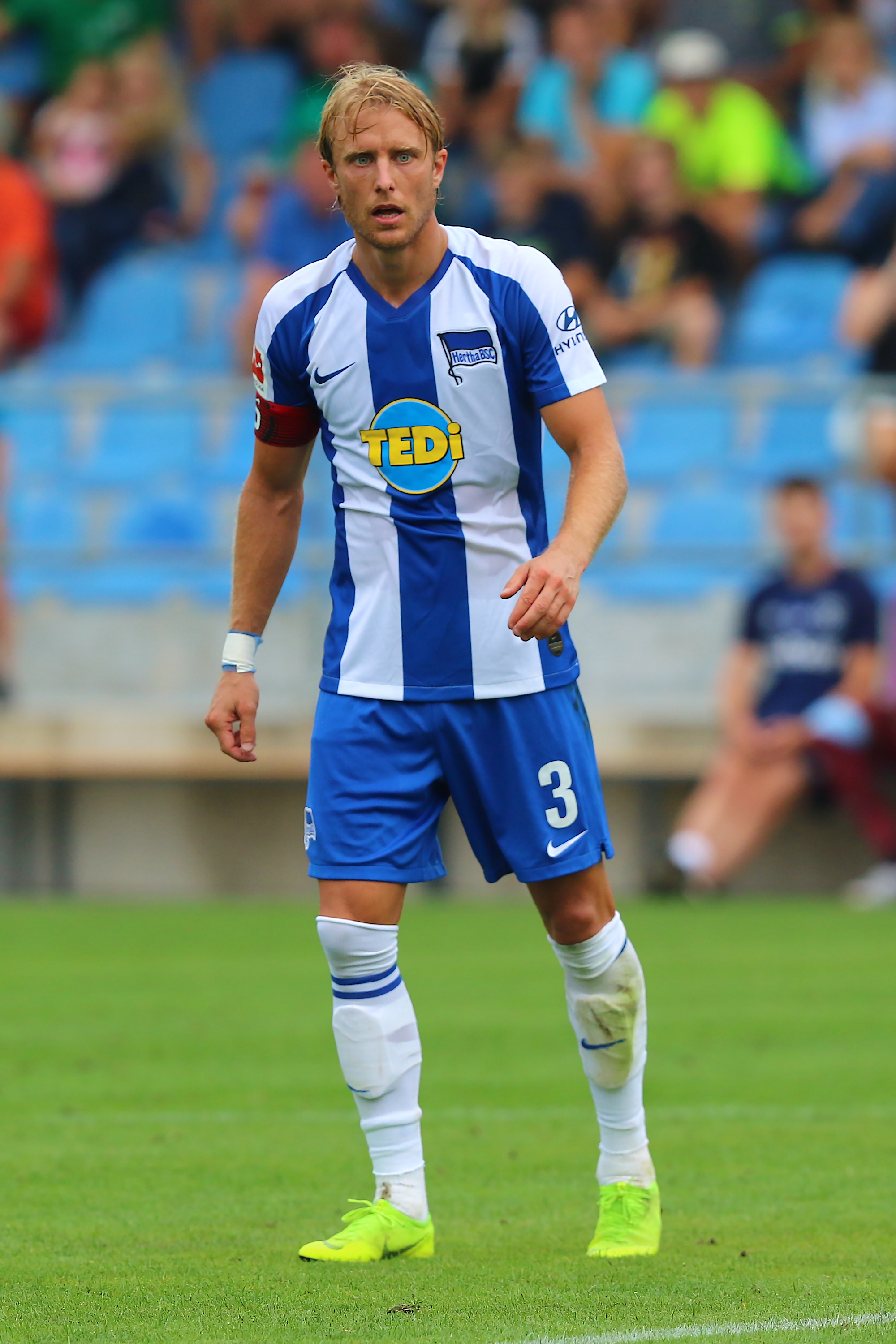 Friendly match Hertha BSC (blue-white shirts) vs. West Ham United (red-blue shirts) at 31-07-2019 3-5 (3-2) in the Sonnenseestadium in Ritzing. – The photo shows Per Skjelbred (Hertha BSC).